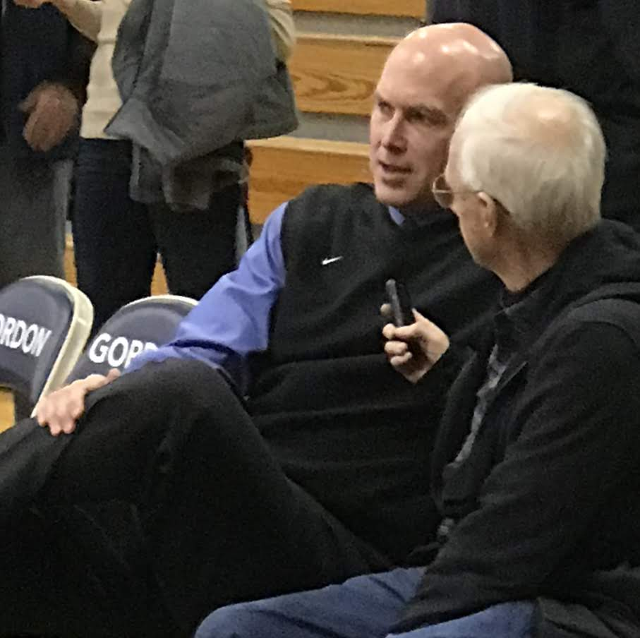 Gordon College head coach and former Minnesota Timberwolves player Tod Murphy being interviewed after a 2019 CCC playoff game.